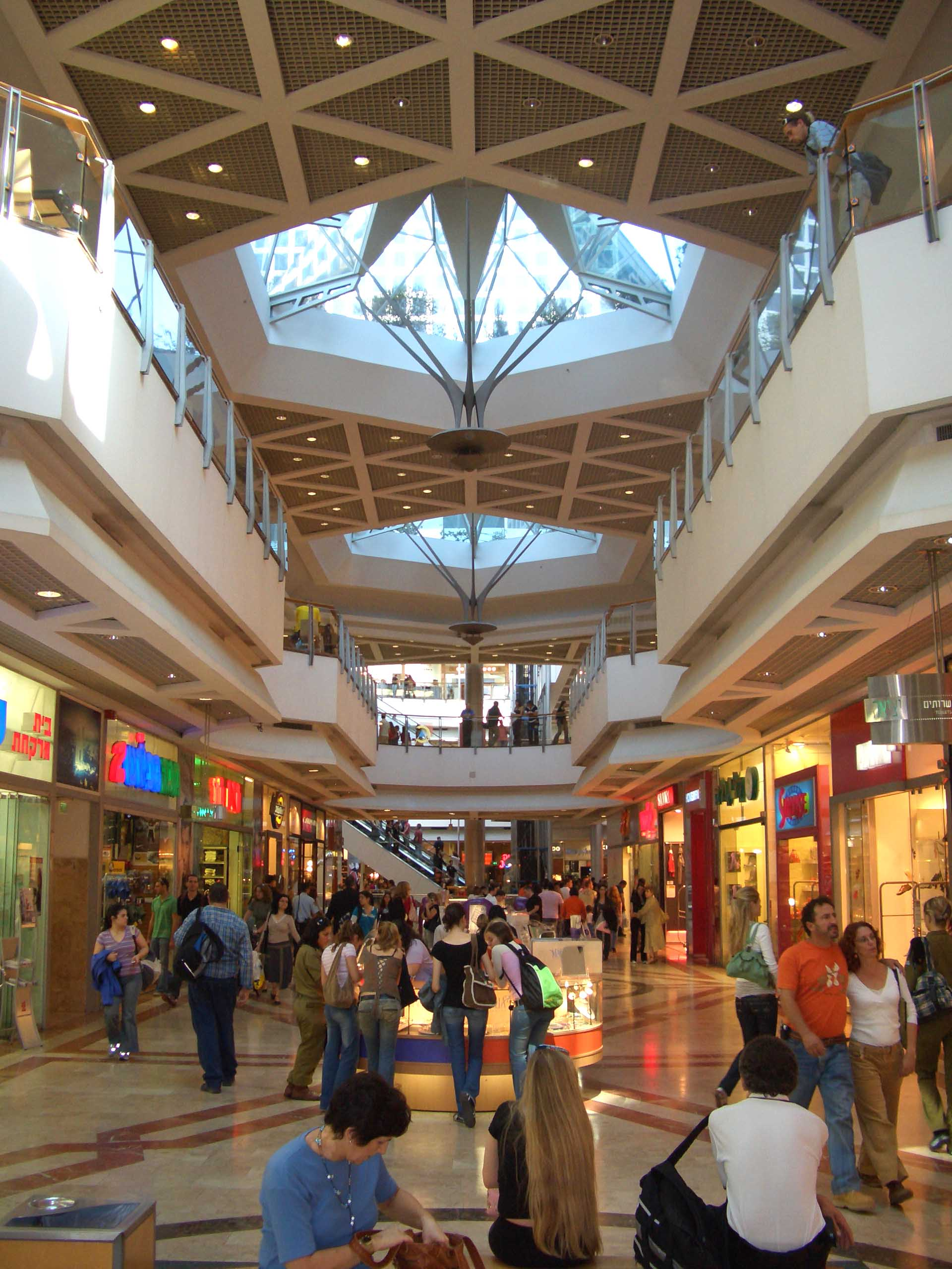 Interior view of Azrieli shopping mall